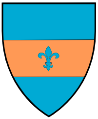 Coat of arms Buća fam. (Kotor, XIV c). Srpski (latinica): Stariji (kotorski) grb familije Buća (XIV vijek).